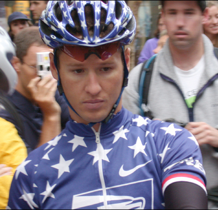 Chann McRae before the San Francisco Grand Prix '02